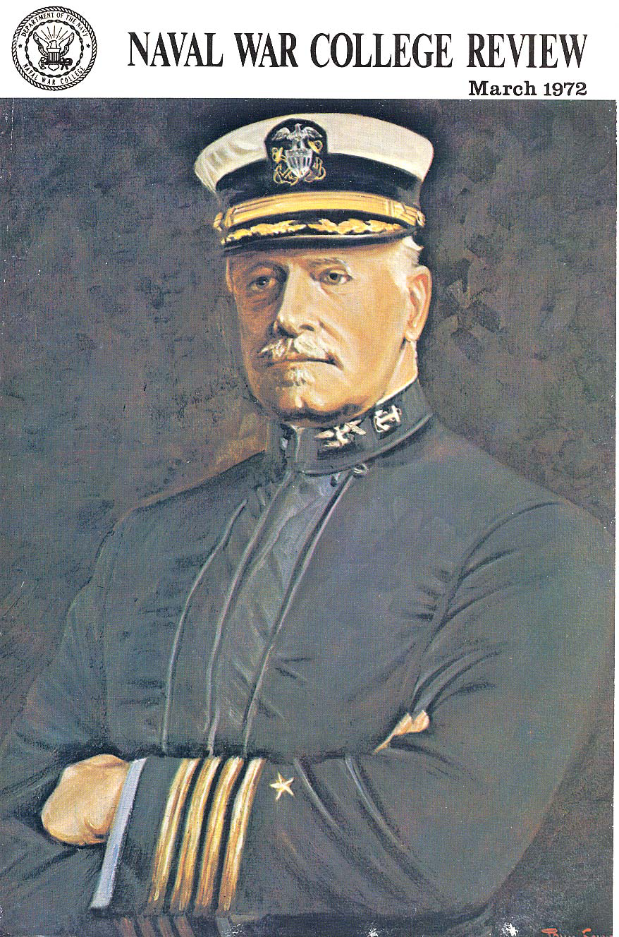 Cover of the March 1972 edition of the Naval War College Review, featuring a portrait of William McCarty Little.